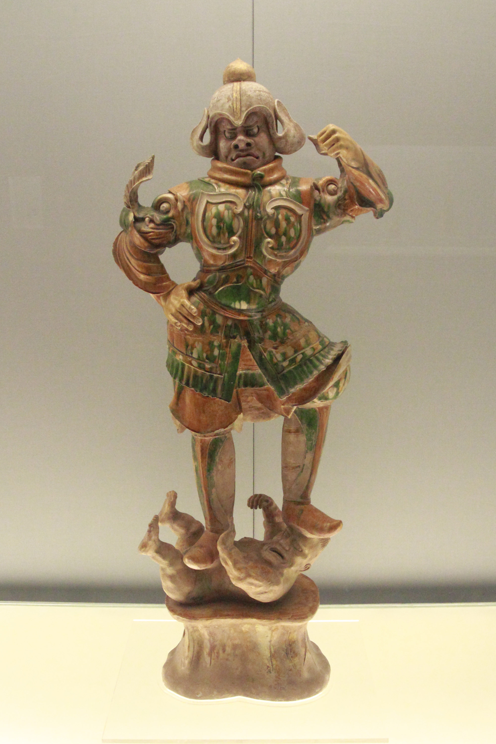 Polychrome glazed pottery statue of heavenly guardian, Sancai，618～907 A.D., a collection of Shanghai Museum